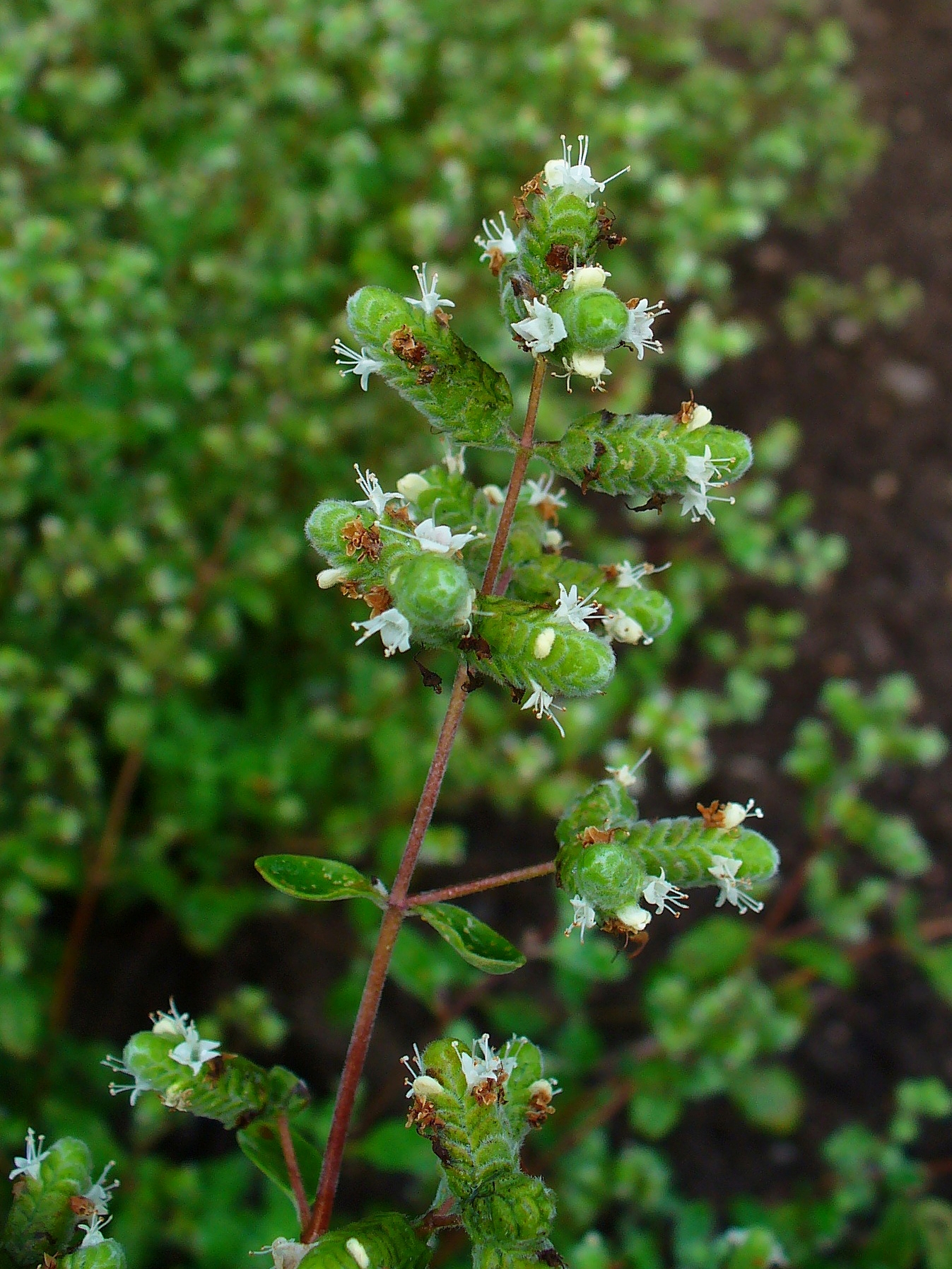 Origanum majorana, Lamiaceae, Marjoram, inflorescences. Botanical Garden KIT, Karlsruhe, Germany.